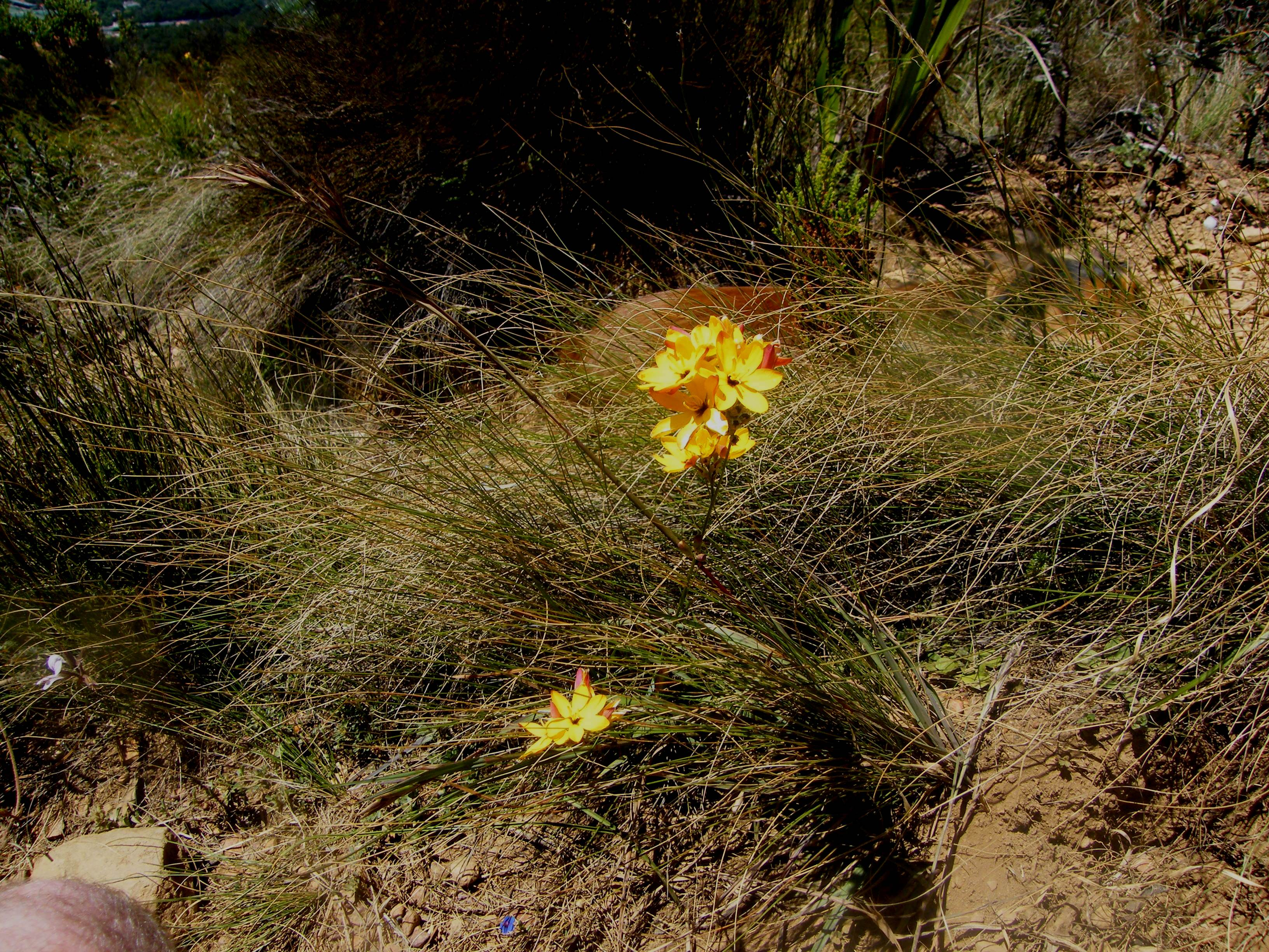 Yellow Ixia